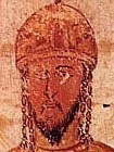 Theodore II Laskaris, Emperor of Nicaea (1254-1258)